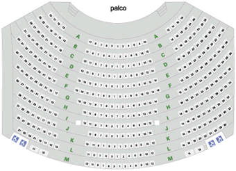 Mapa da platéia do Teatro FECAP